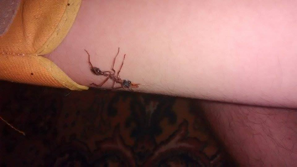 Myrmecia nigriceps that I stole from a nest. With the right technique, I managed to have her walk on my arm without her stinging me several times. She was returned to her nest safely after this.